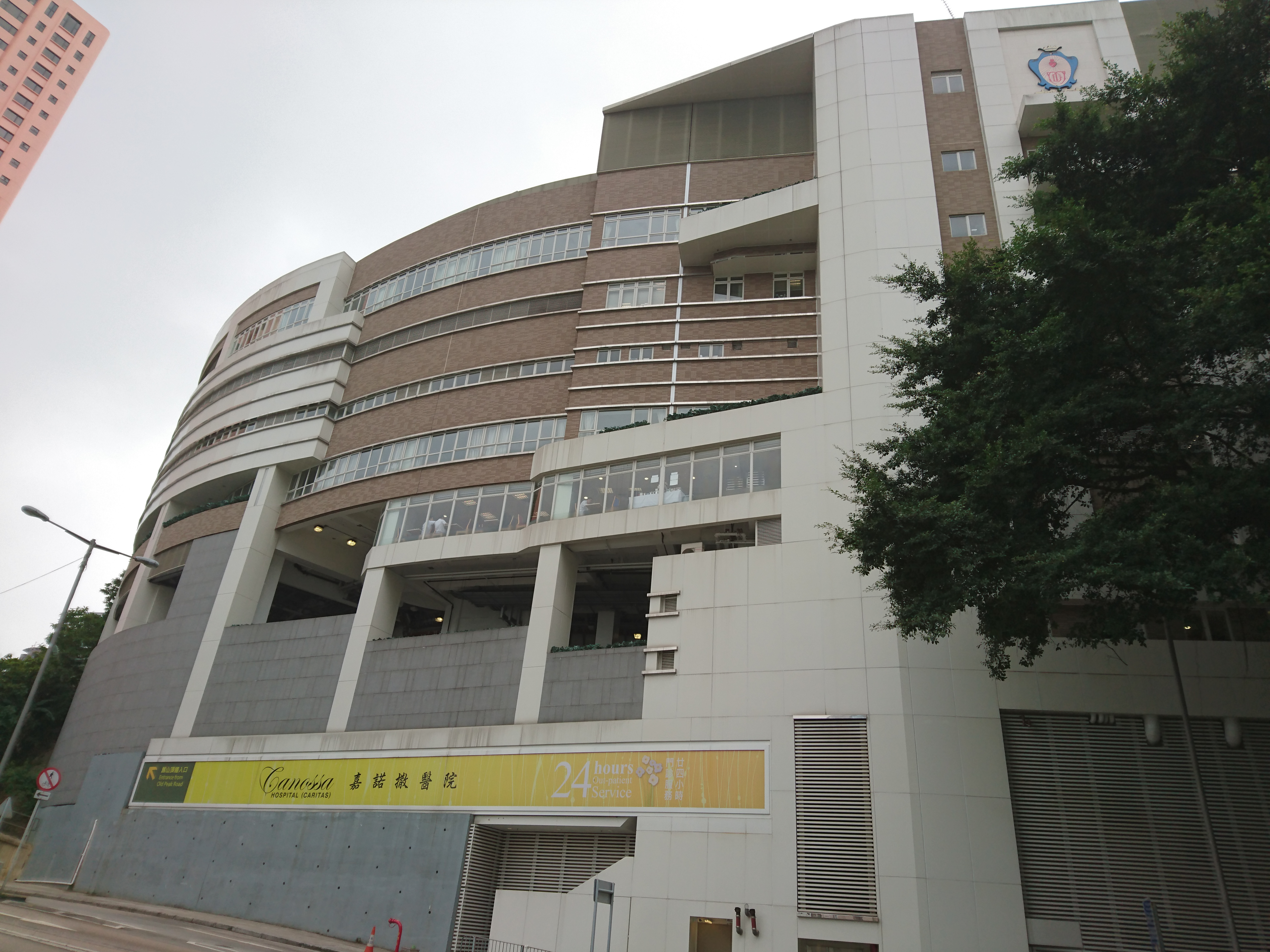 Canossa Hospital (Caritas)